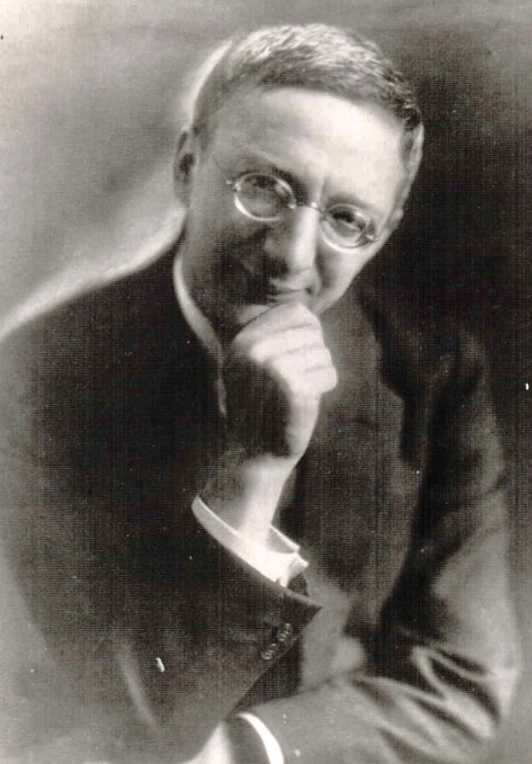 The psychiatrist and writer Alfred Döblin (1878–1957) in the 1930s